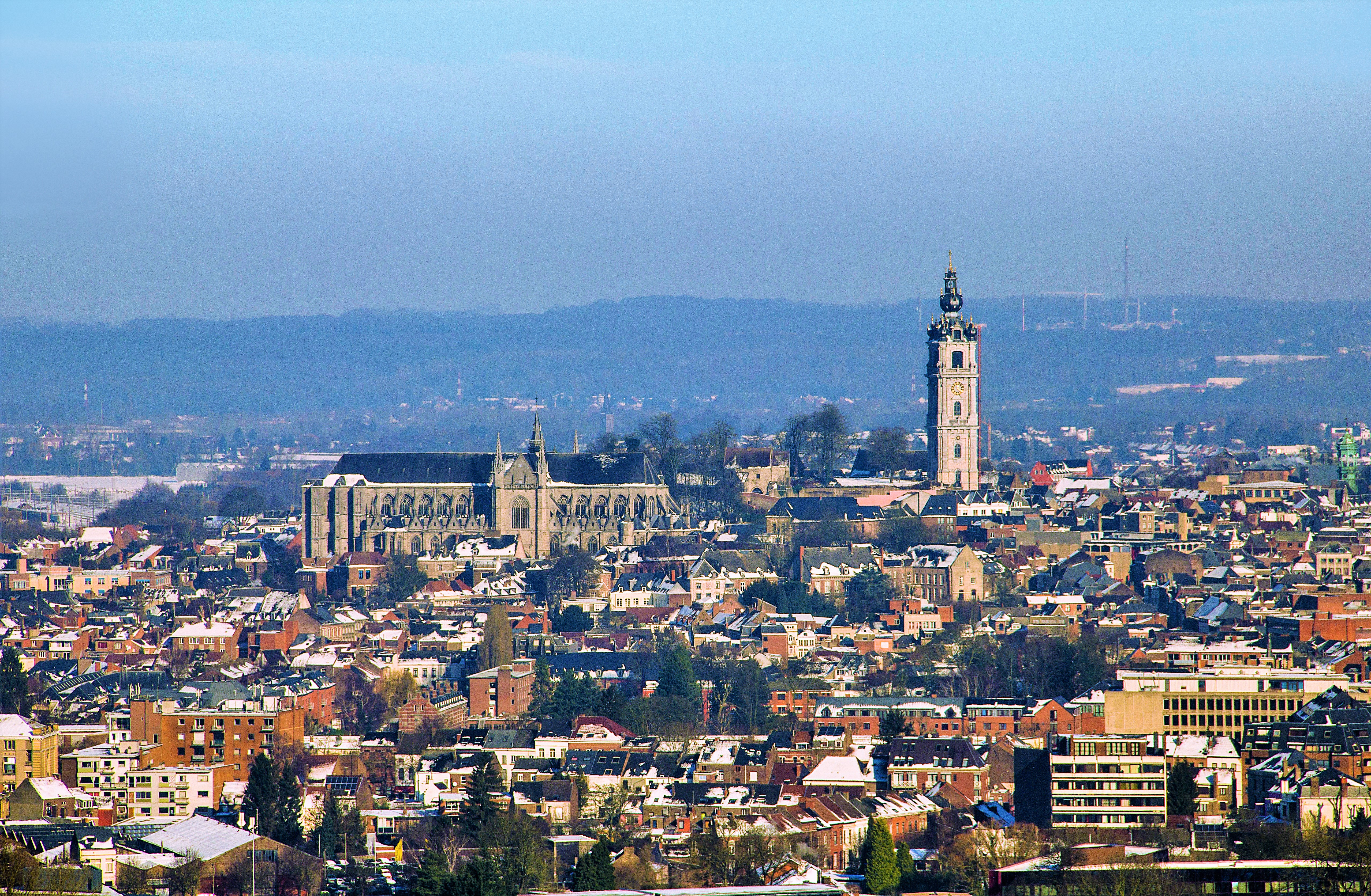 Mons (Belgium), panorama of the old town, seen from the summit of the Mont Héribus.